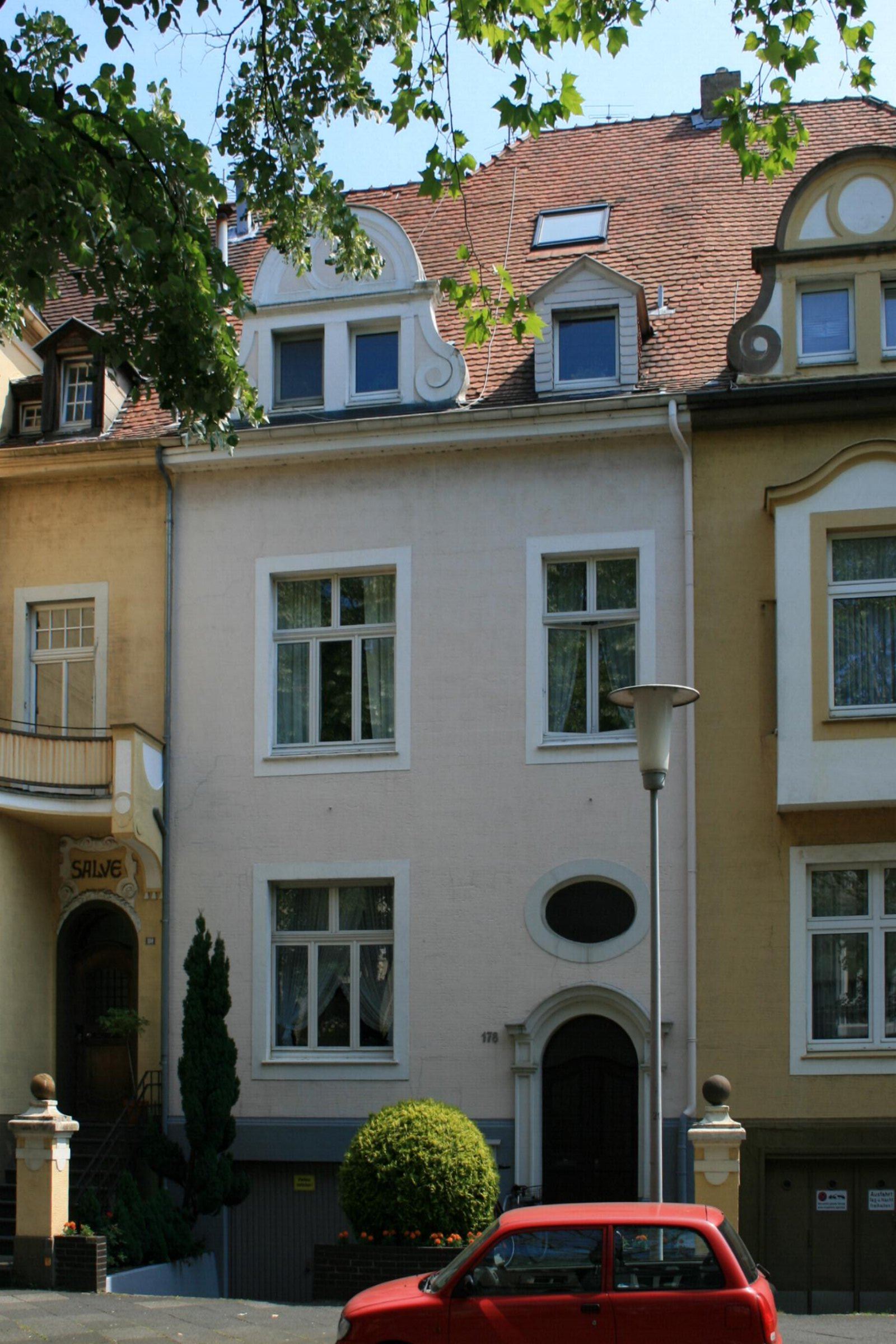 Cultural heritage monument No. B 096 in Mönchengladbach